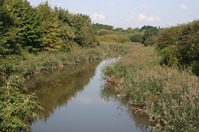 Jetty Marsh Nature Reserve. Looking down from the bridge over the disused Stover Canal on the busy road between Newton Abbot and Kingsteignton.